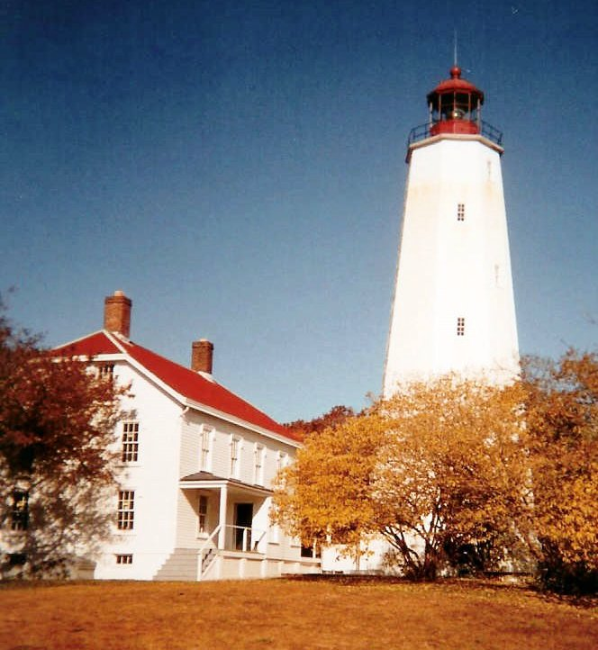 A personal photo of the Sandy Hook lighthouse taken in October 2004. Viewed from the south end of the lighthouse, facing north.